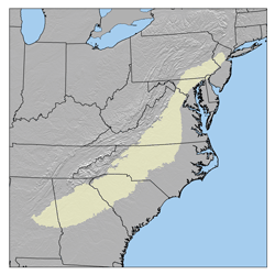 This is a map of the Piedmont Region I made using USGS data and Major Land Resource Areas.